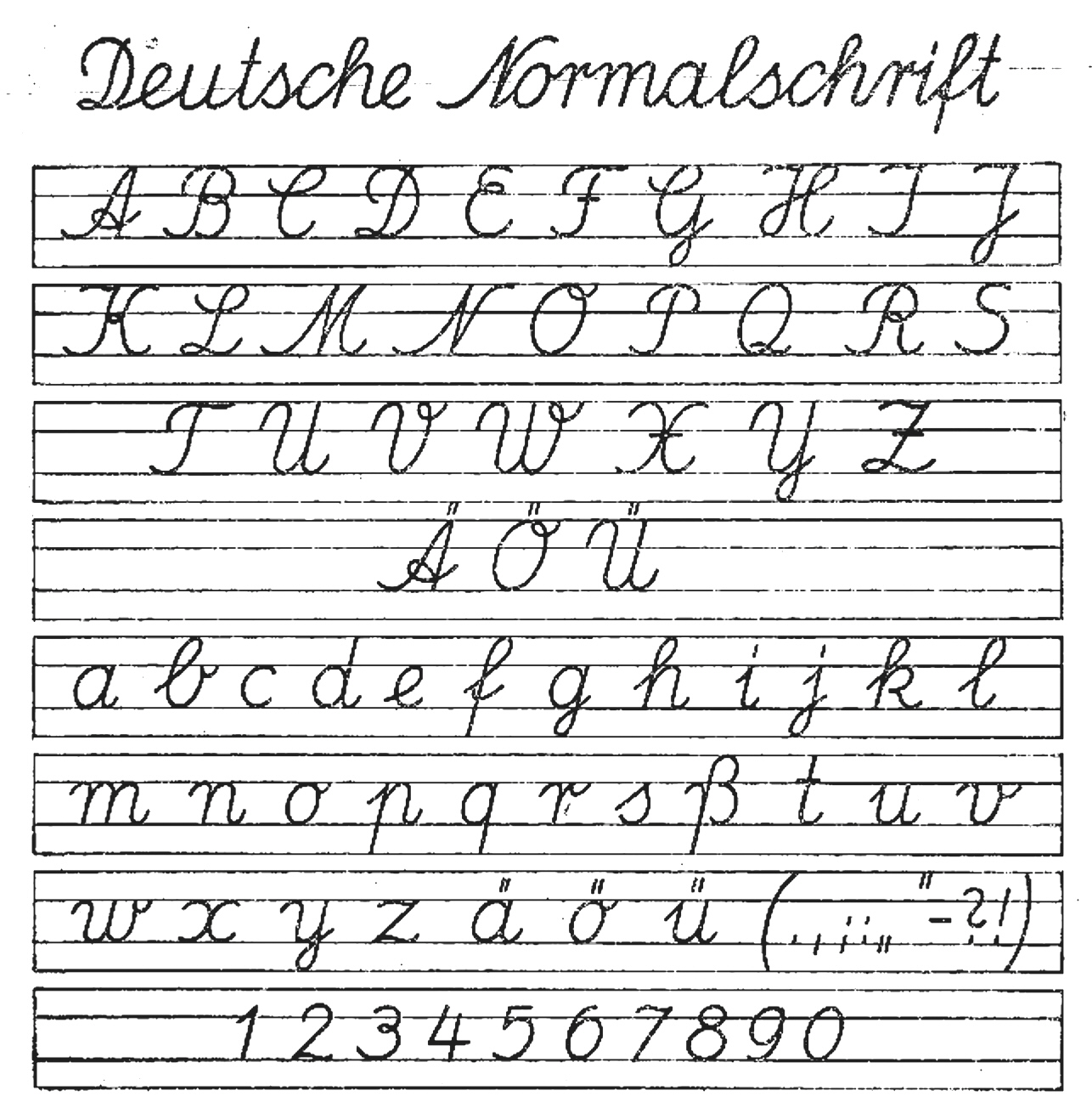 german handscript since 1941